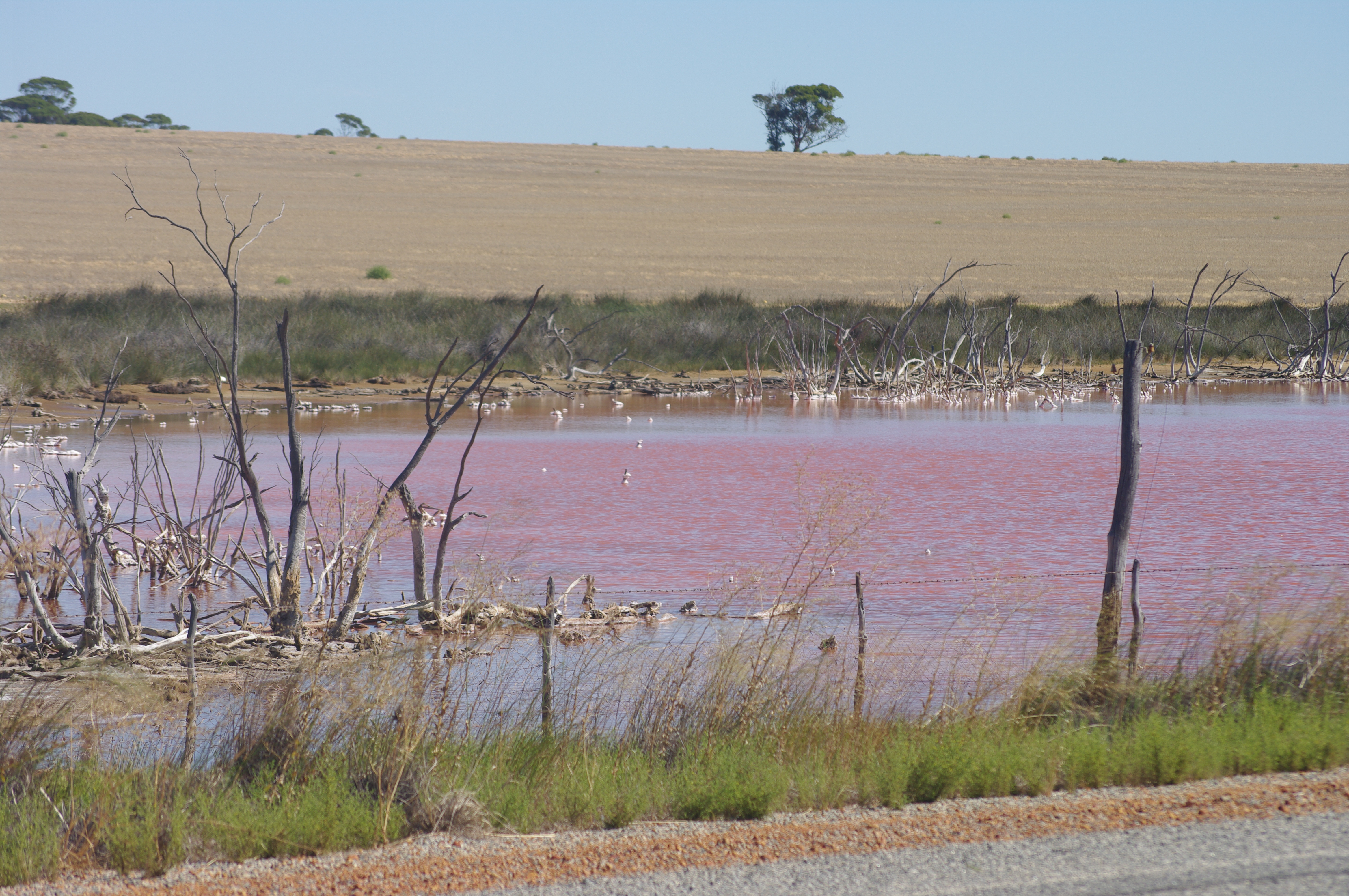 Pink Lake 10km east of Quairading, Western Australia